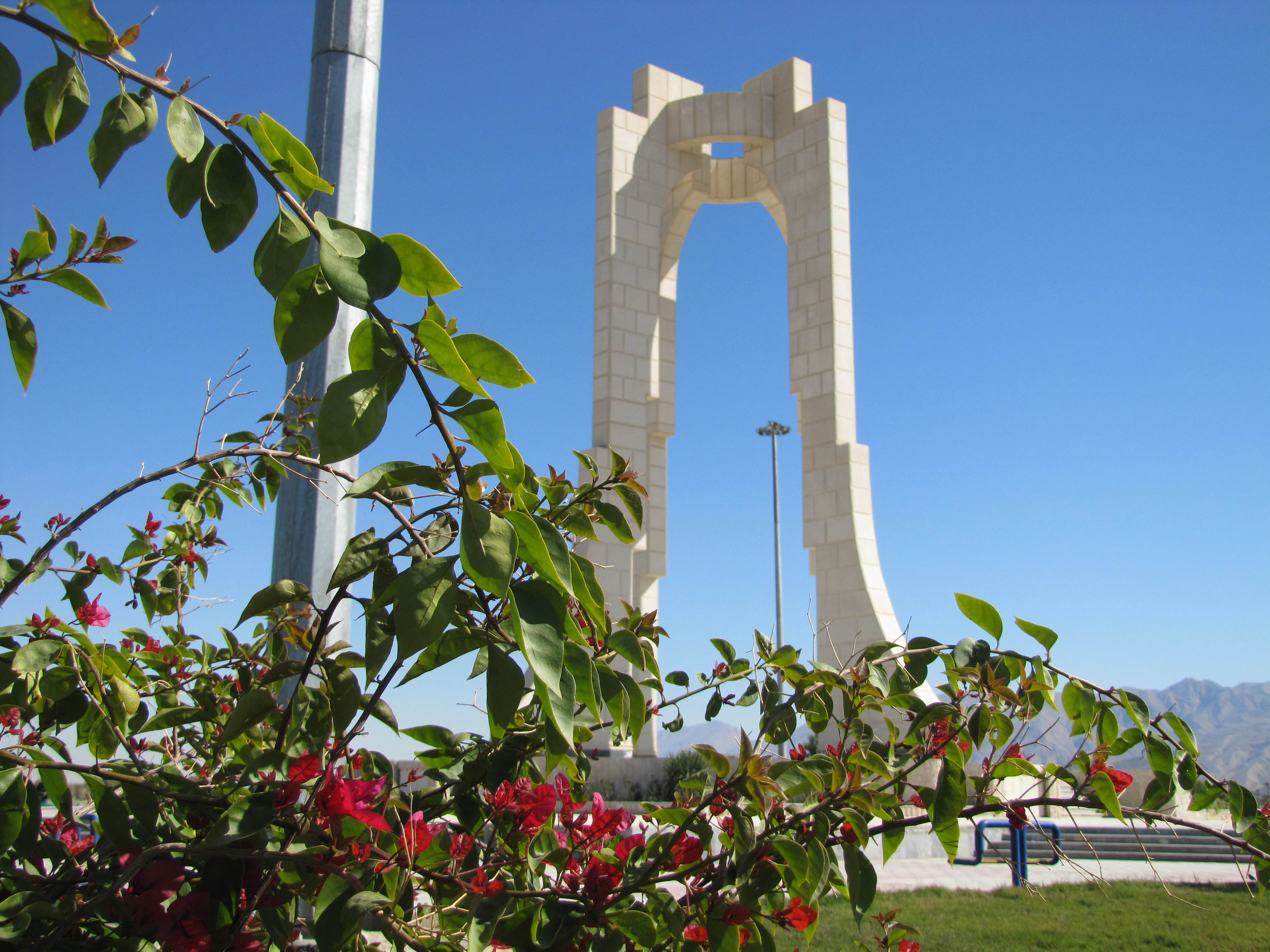 Imam Khomeini square in lar